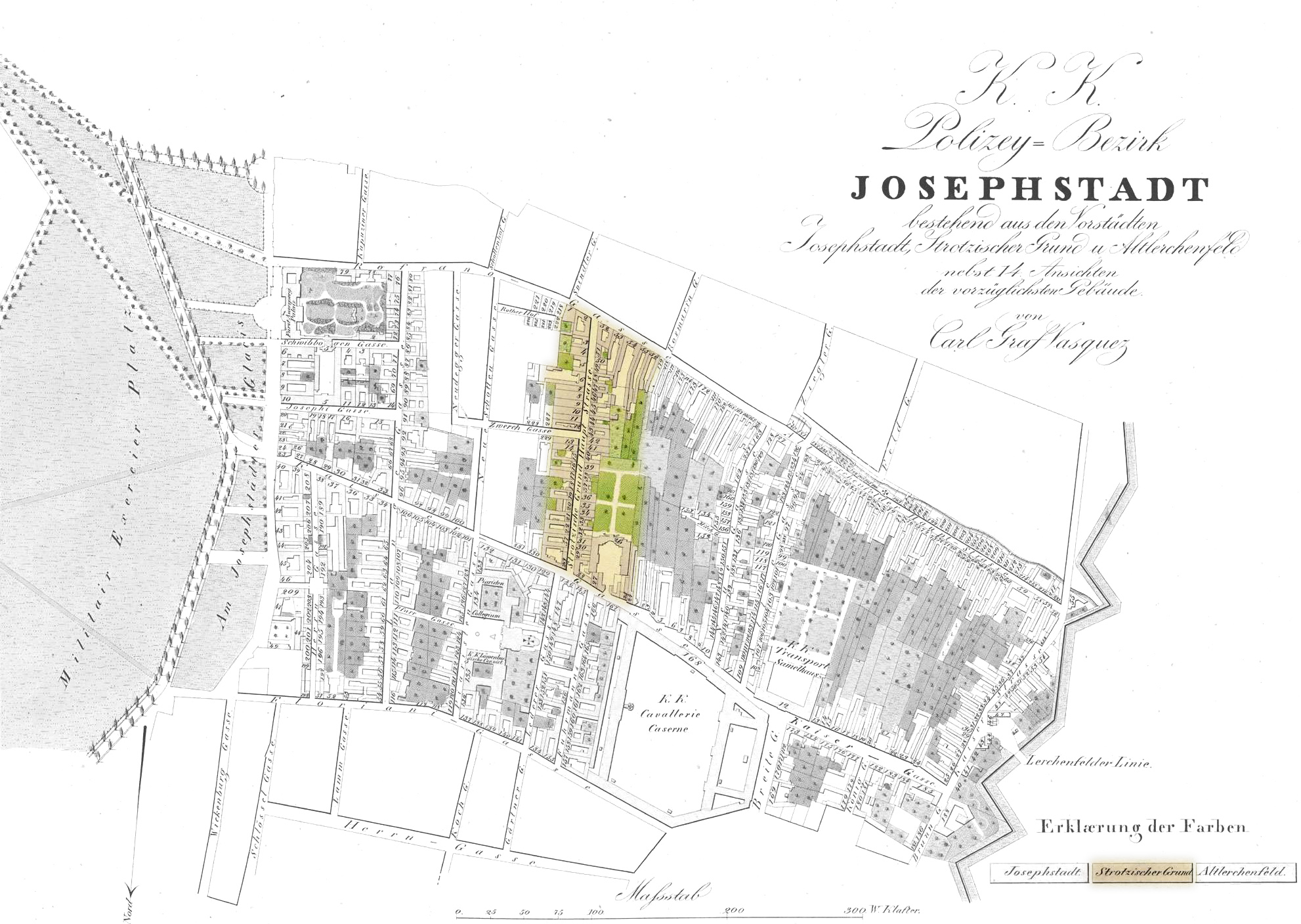 Map of Vienna / Strozzigrund, approx. 1830